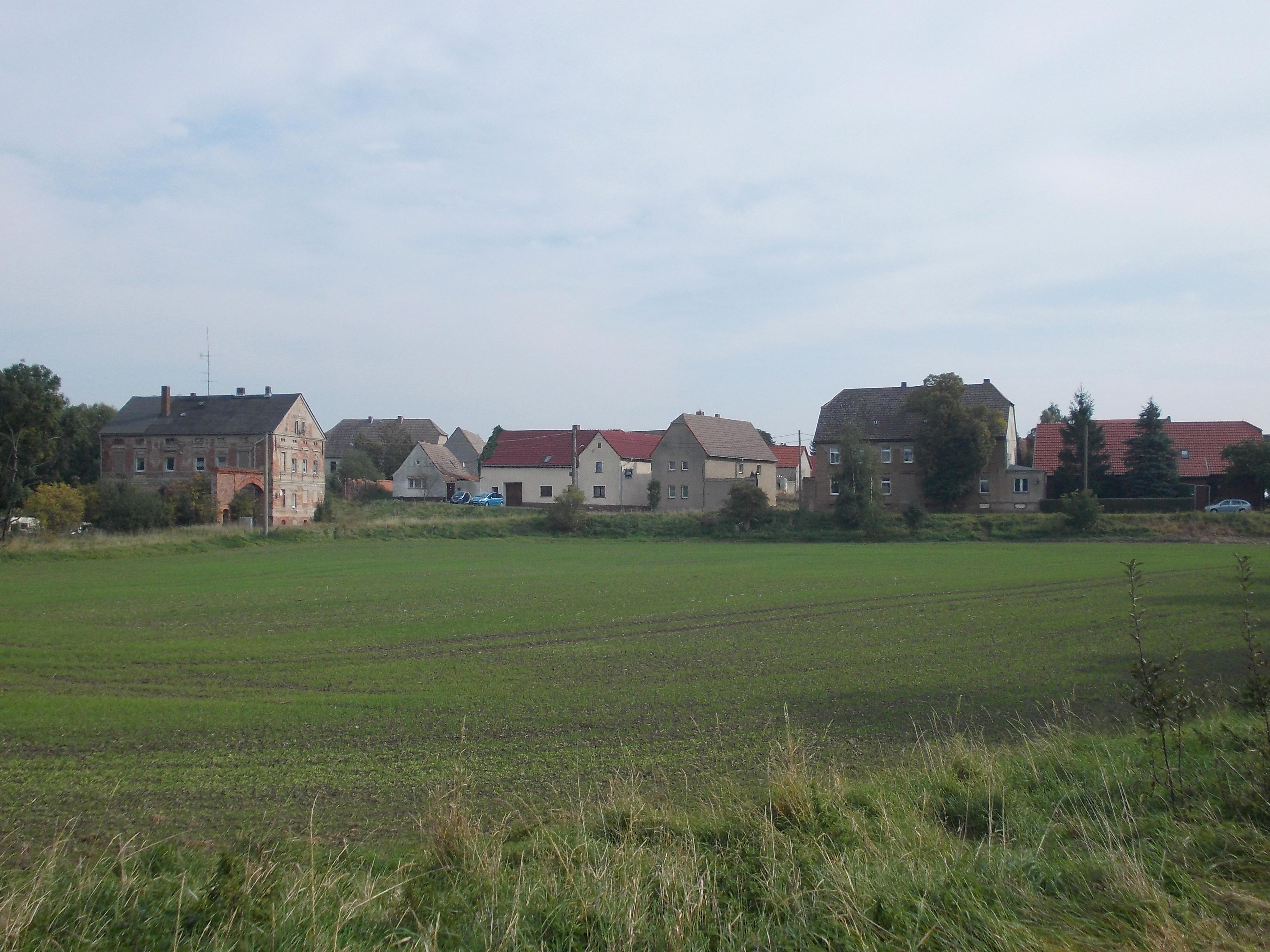 At the entrance to the village of Plötz (Wettin-Löbejün, district: Saalekreis, Saxony-Anhalt)